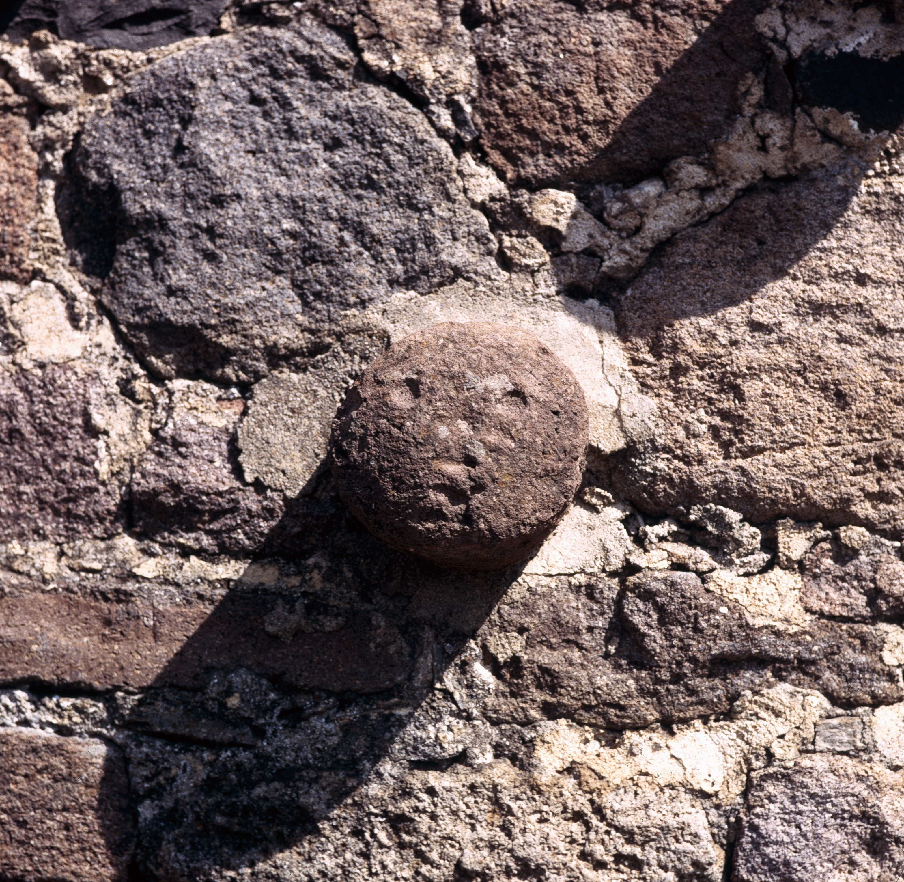 Calixtlahuaca, Estado de México, Mexico: Tzompantli detail